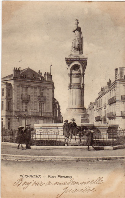 Postcard of the square Plumancy, in Périgueux (Dordogne, France). According to Ebay, it dates 1900s, but it is supposed that it circulated in 1903.